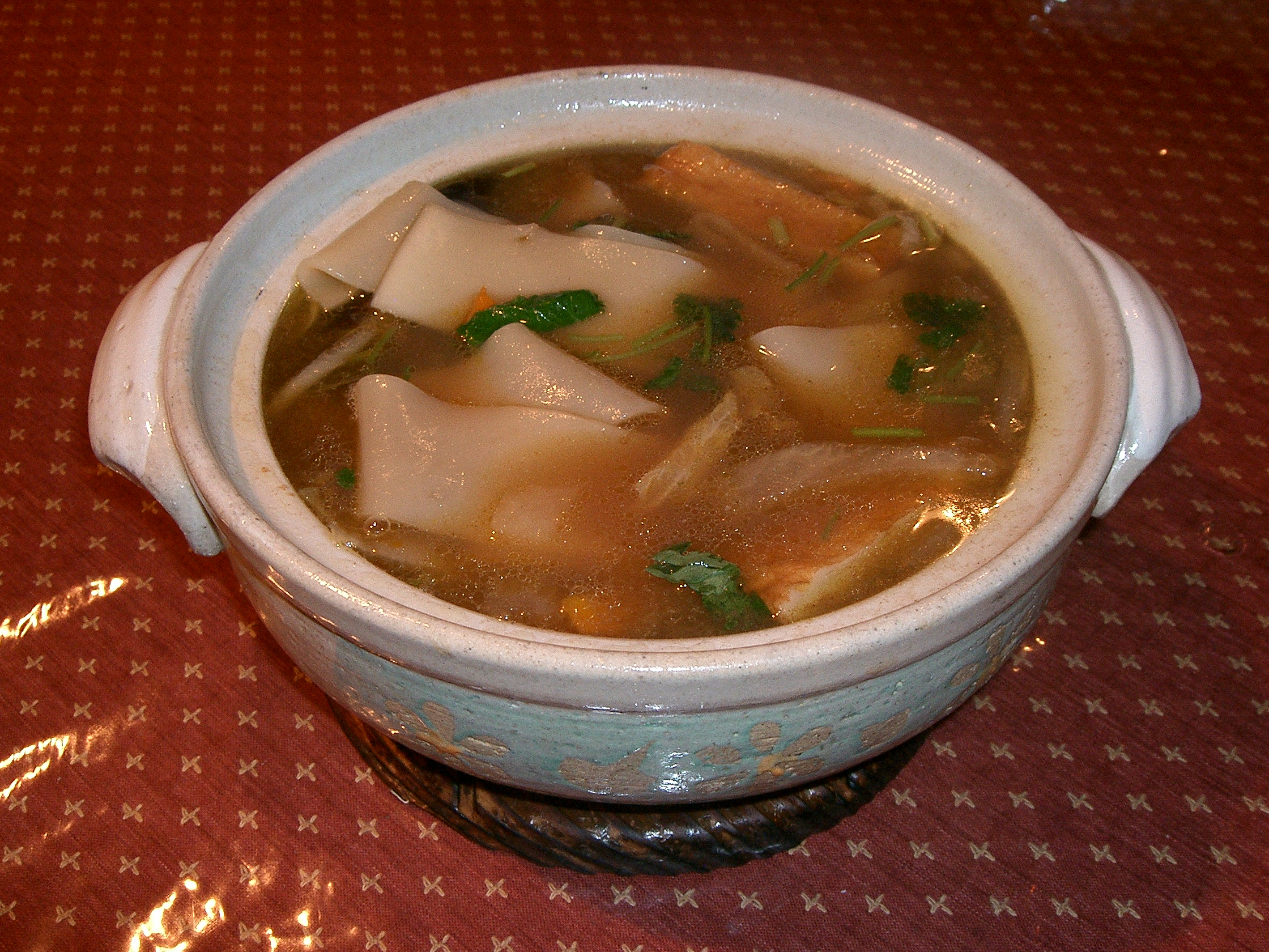 A regional cuisine in Gunma prefecture, Japan. It contains wide noodle. Served by "NIttanoshō Bekkan Kanzantei" as "Jōshū Hōtō Okirikomi".